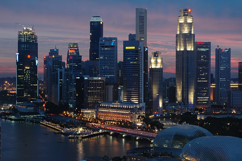 The Central Business District of Singapore at dusk, taken from one of The Pan Pacific Singapore's "Panoramic Balcony" rooms. (Duplicating this will require a tripod and careful positioning to block off the bulk of the Mandarin Oriental, Singapore, and Meritus Mandarin (now Marina Mandarin Singapore) hotels looming in front.)